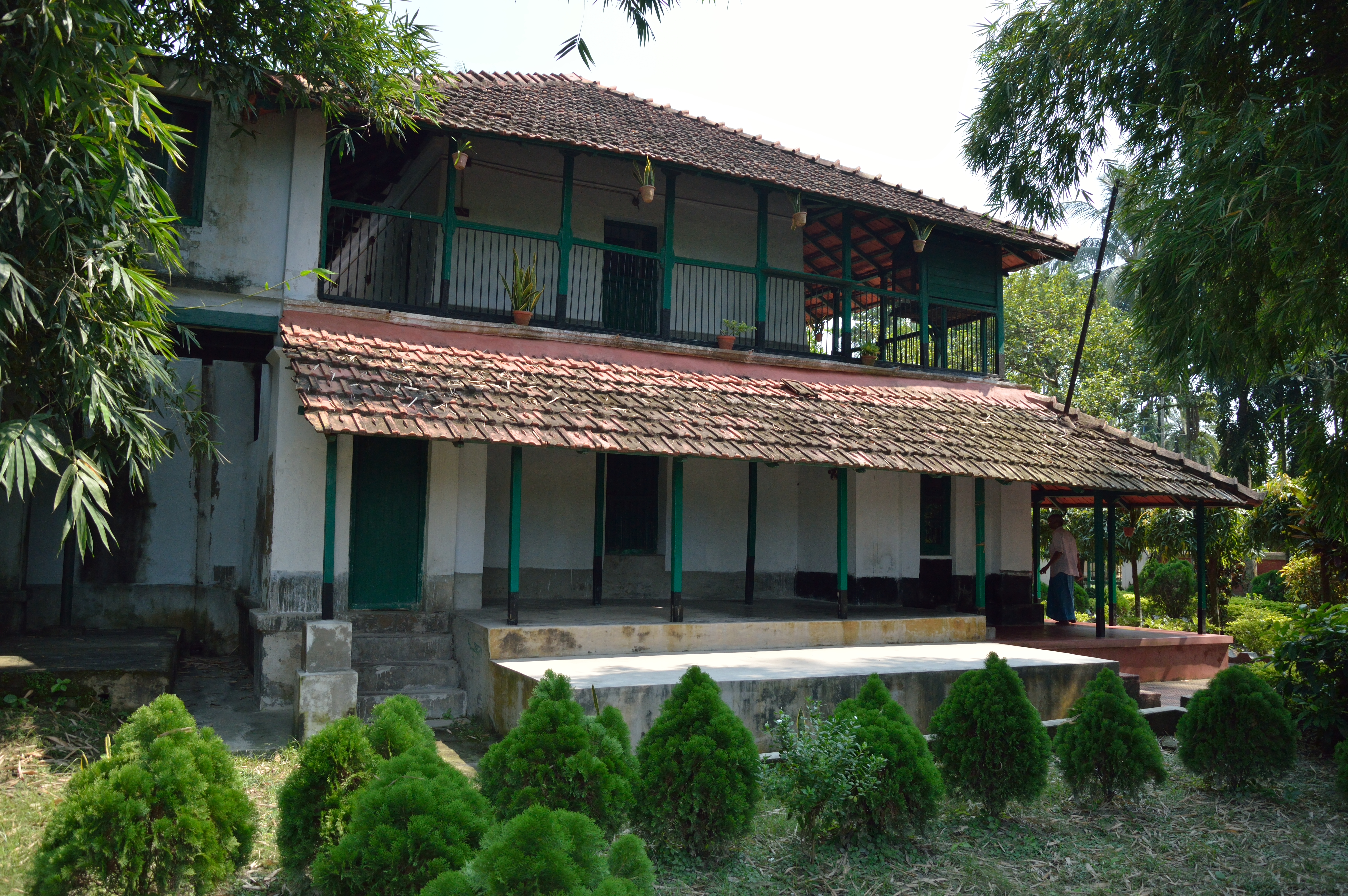 This photograph has been taken at the ‘House of Sarat Chandra Chattopadhyay ‘ or ‘Sarat Chandra Kuthi’ or ‘Sarat-Smriti-Mandir’ is located at Samtaber (Samta) , Bagnan, Howrah in the Indian state of West Bengal. The two storied Burmese style house was also home to Sarat Chandra's brother, Swami Vedananda, who was a disciple of Belur Math. This museum building was declared as a ‘Heritage Building’ by the ‘West Bengal Heritage Commission’ in 2007.